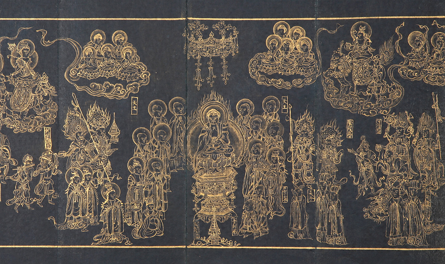 Lotus Sutra, Chokokan, Saga, Saga, Japan